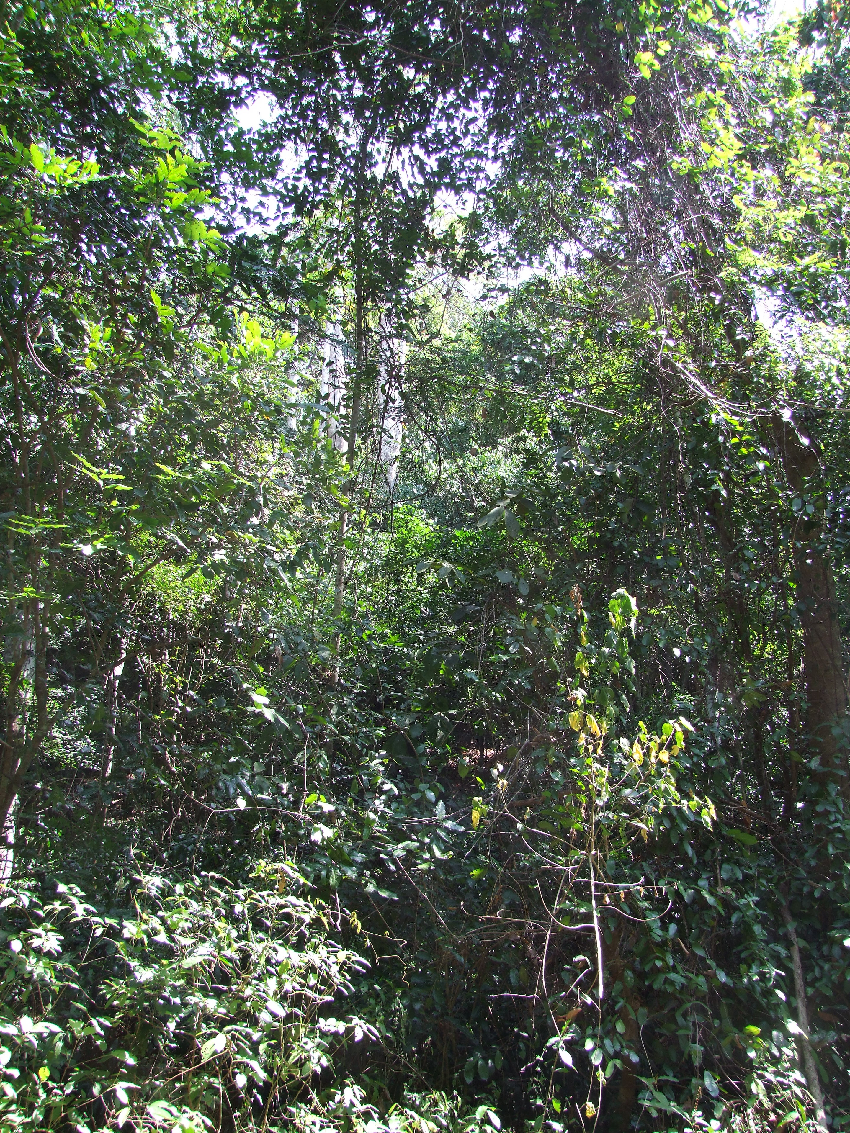 Remnants of coastal forest at Pugu Hills Forest Reserve, Pwani, Tanzania